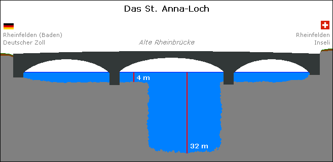 Schematic illustration of the "St. Anna-Loch" under the old Rhine bridge of Rheinfelden. Original scale: 5 pixels = 1 metre